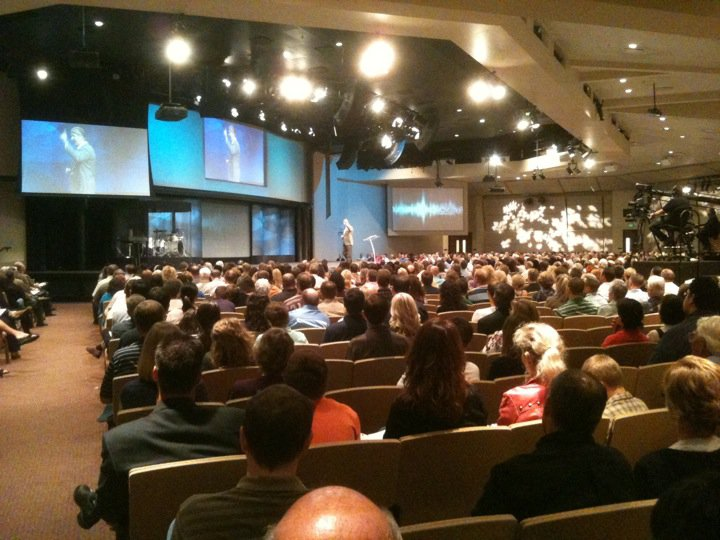 A weekend service at Gateway Church's former Southlake Campus in September of 2010.